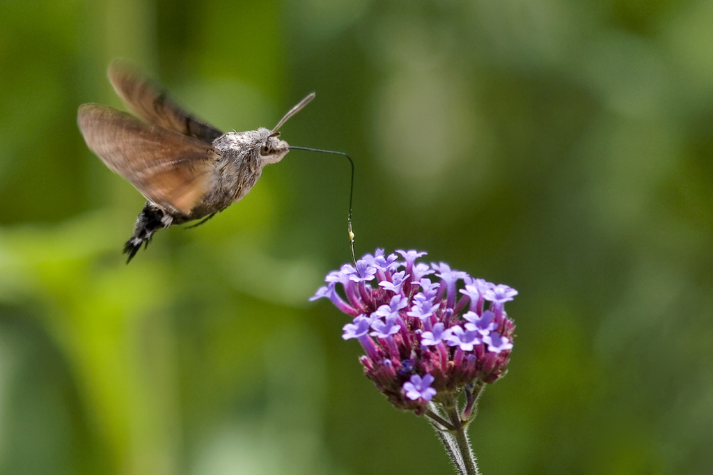 Moro Sphinx